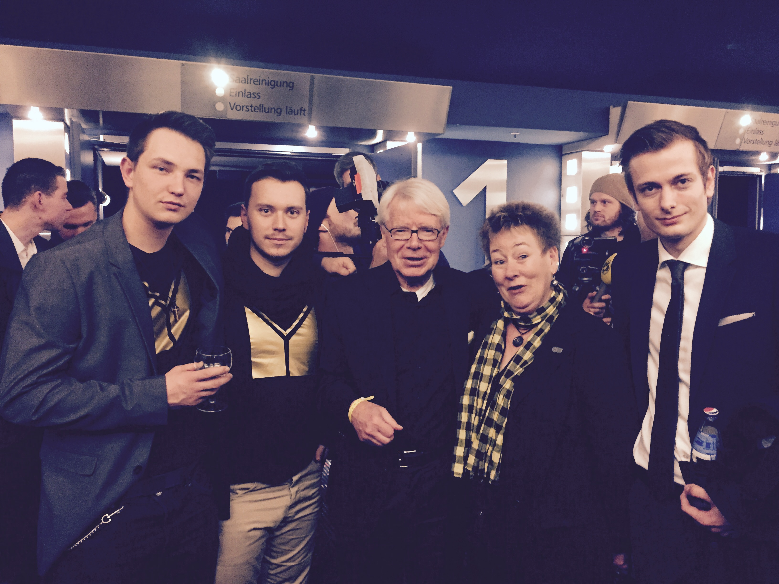 Actors of the movie from left to right: Gregor, Kaufmann, Rauball, Kritzler und Du